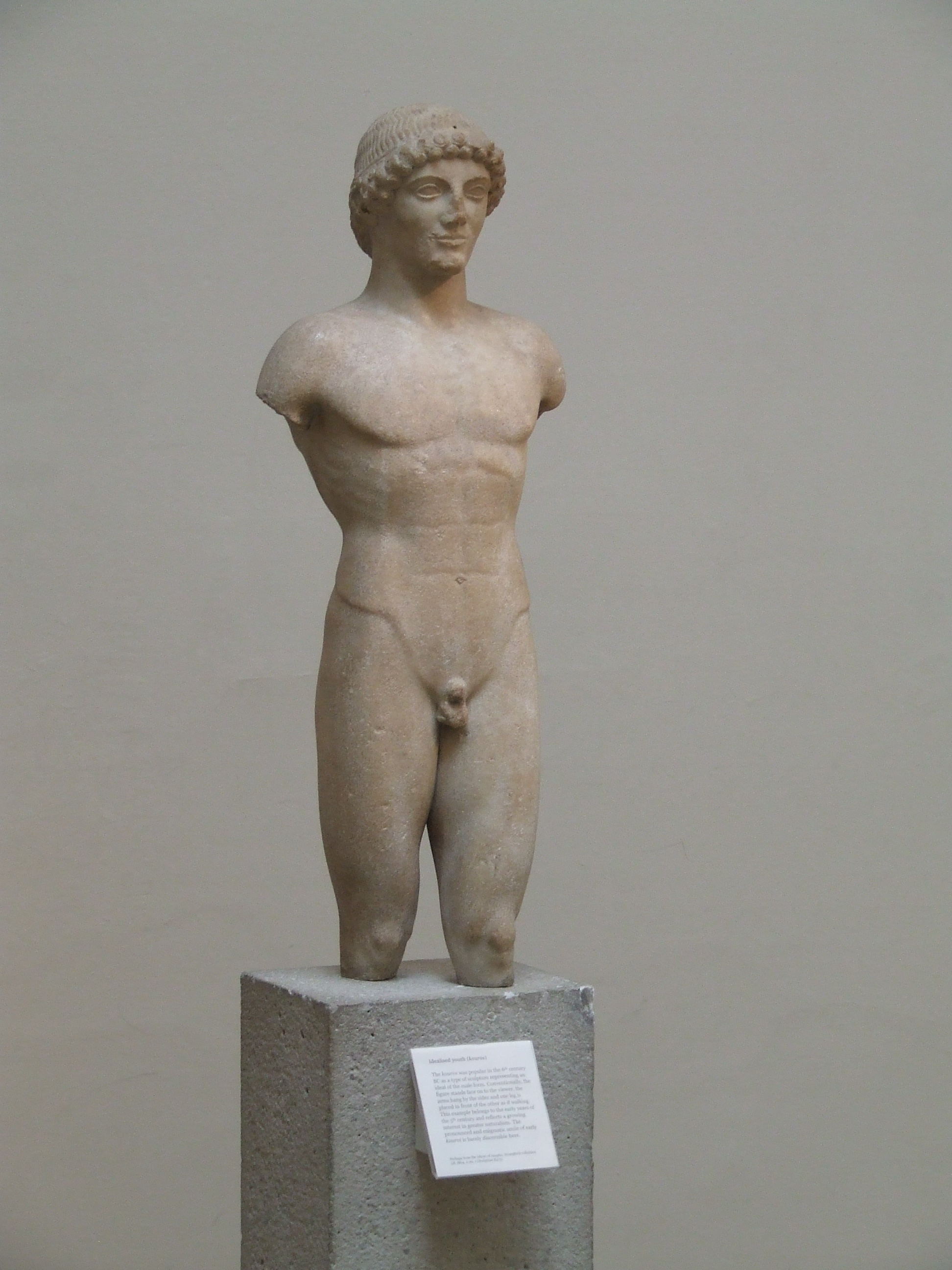 A statue of a Kouros (idealised youth), now in the British Museum. The “Strangford Apollo”. Marble, ca. 510-500 BC. From the island of Anaphe (?).